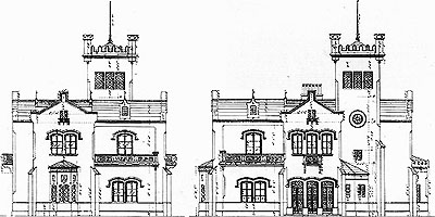 Prospects of the Miramare Castle annexe ("Castelletto") taken from architect Carlo Junker’s plans (1856)